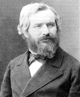 Camille Jordan, French mathematician